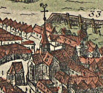 Schottenkirche, cropped from: Bird's-eye view of Vienna from North. Second, unmodified edition of 1640, based on the first edition of 1609. Title: VIENNA AVSTRIAE Wienn In Oesterreich.